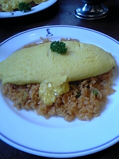 omurice TAIMEIKEN